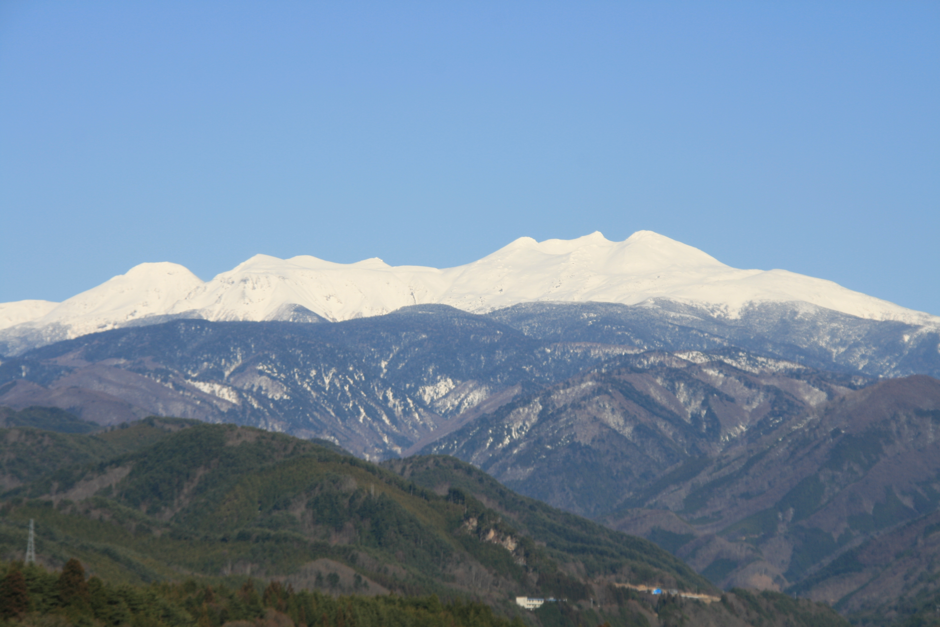 The west side of Mount Norikura in Japan.